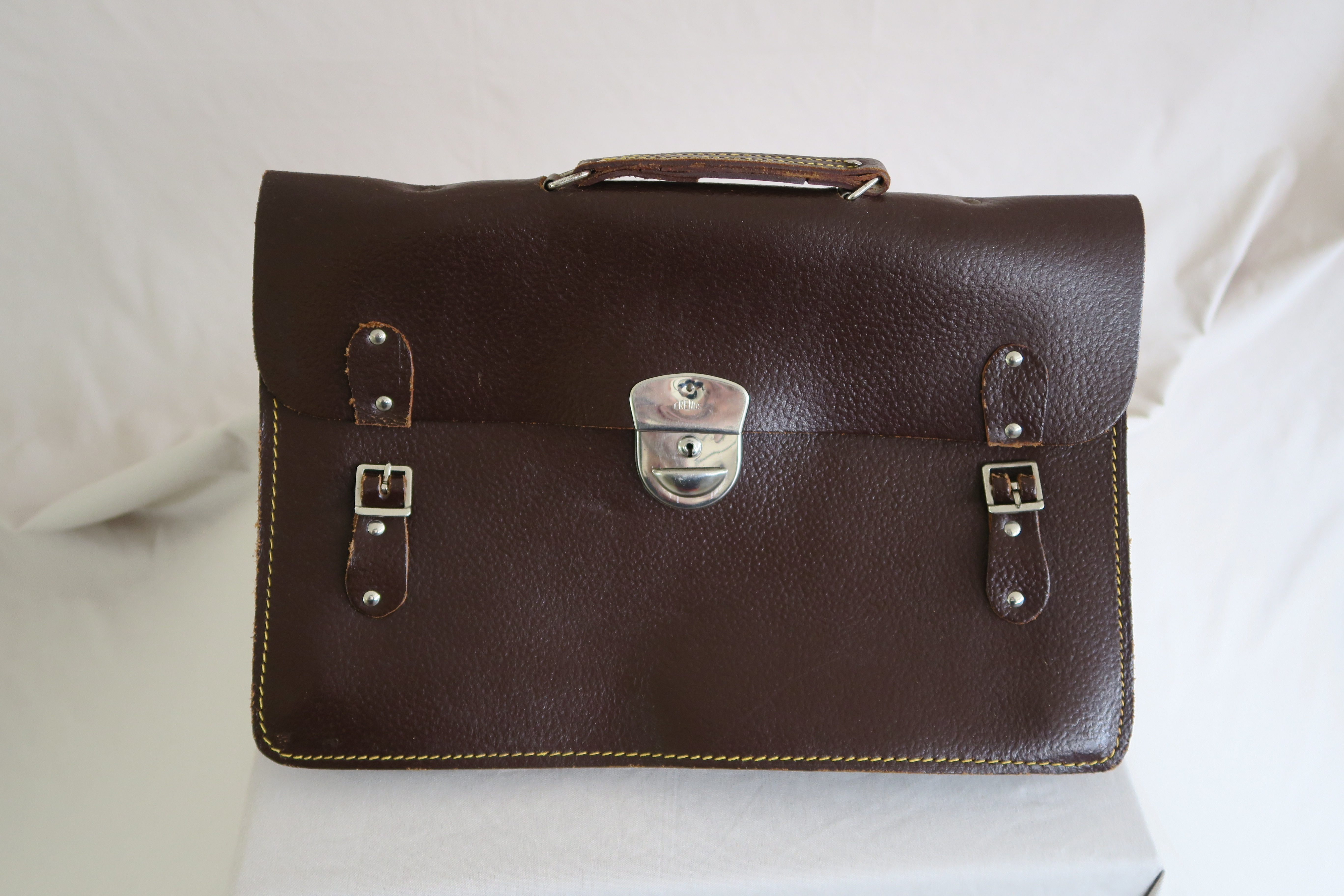 Schoolbags in Austria